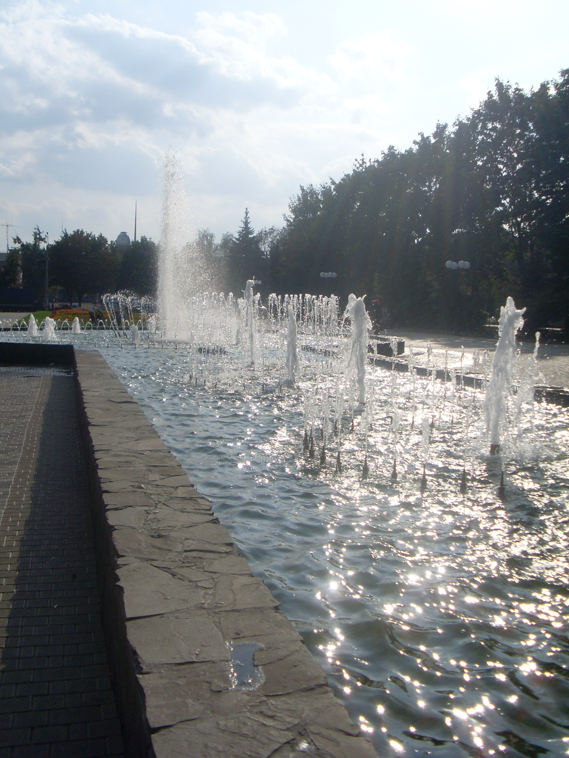 Fountain at Alexander Square in Kharkiv, Ukraine